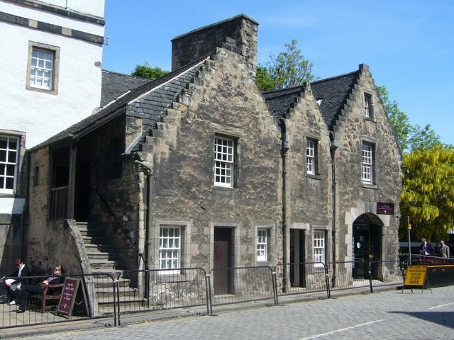 Abbeey Sanctuary, Abbey Strand, Holyrood Palace Buildings outside the main entrance to Holyrood Palace, incorporating a tea-room.